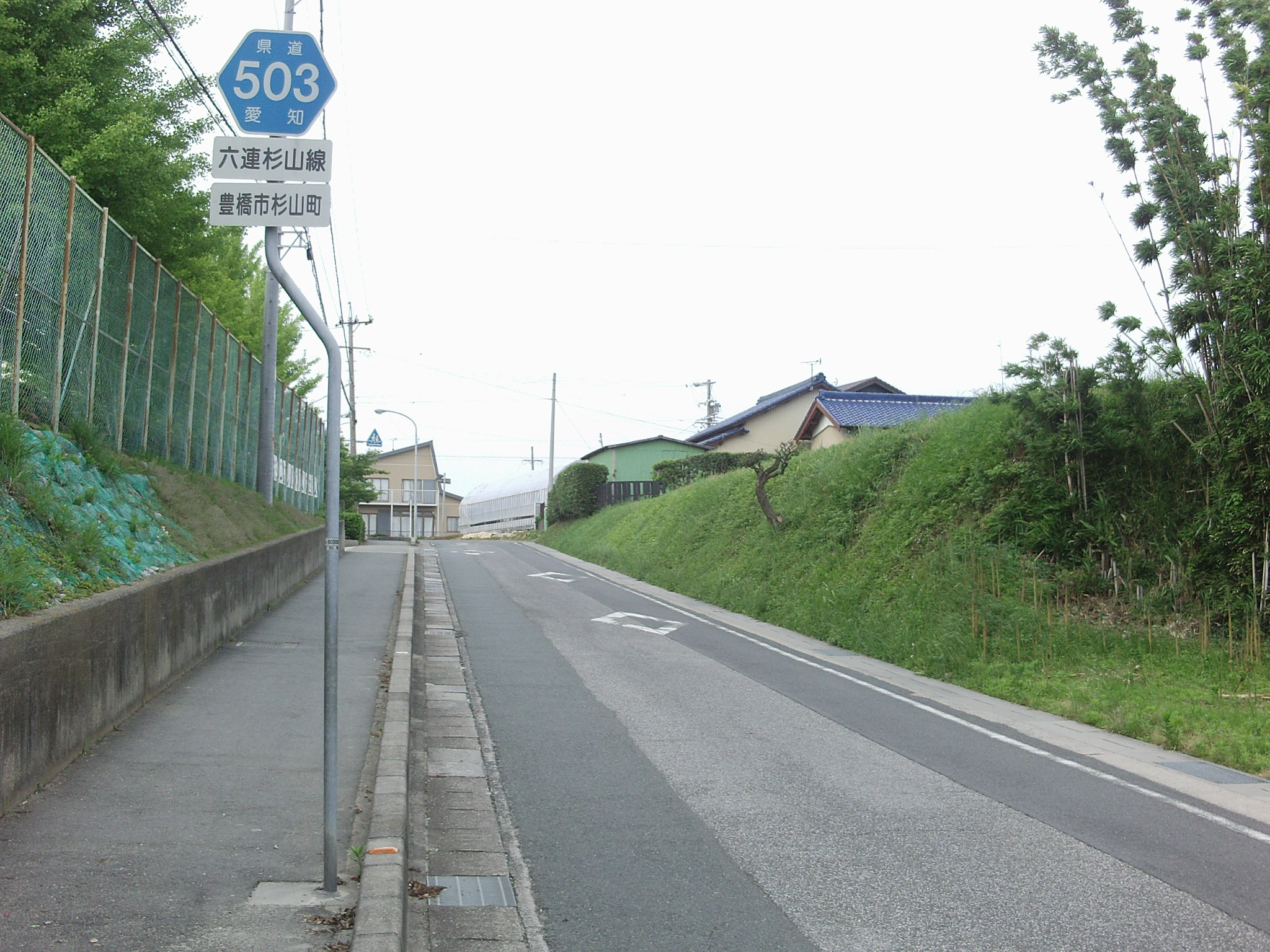 Aichi prefectural road No.503 in Sugiyamacho, Toyohashi, Aichi.